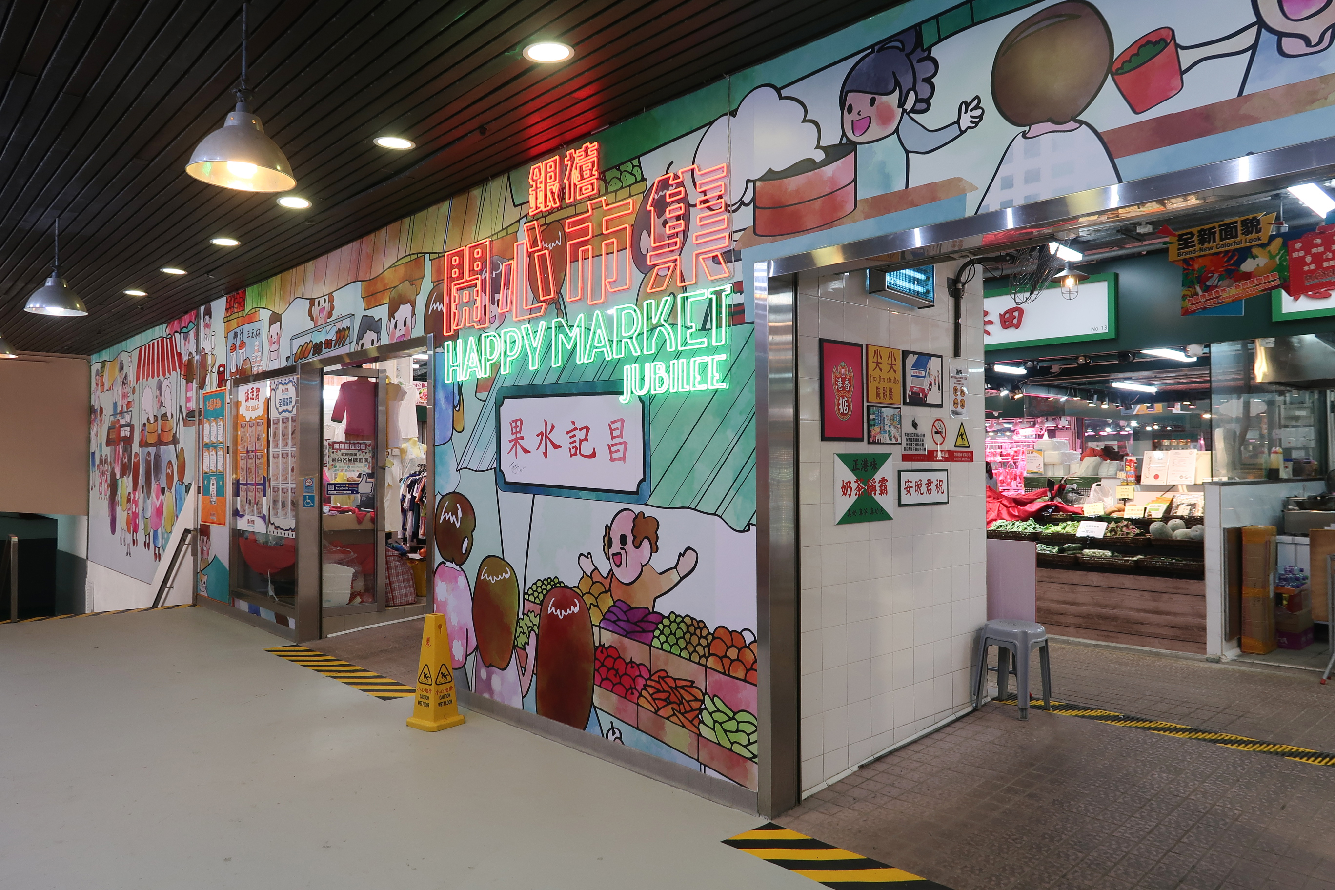 Happy Market Jubilee Entrance